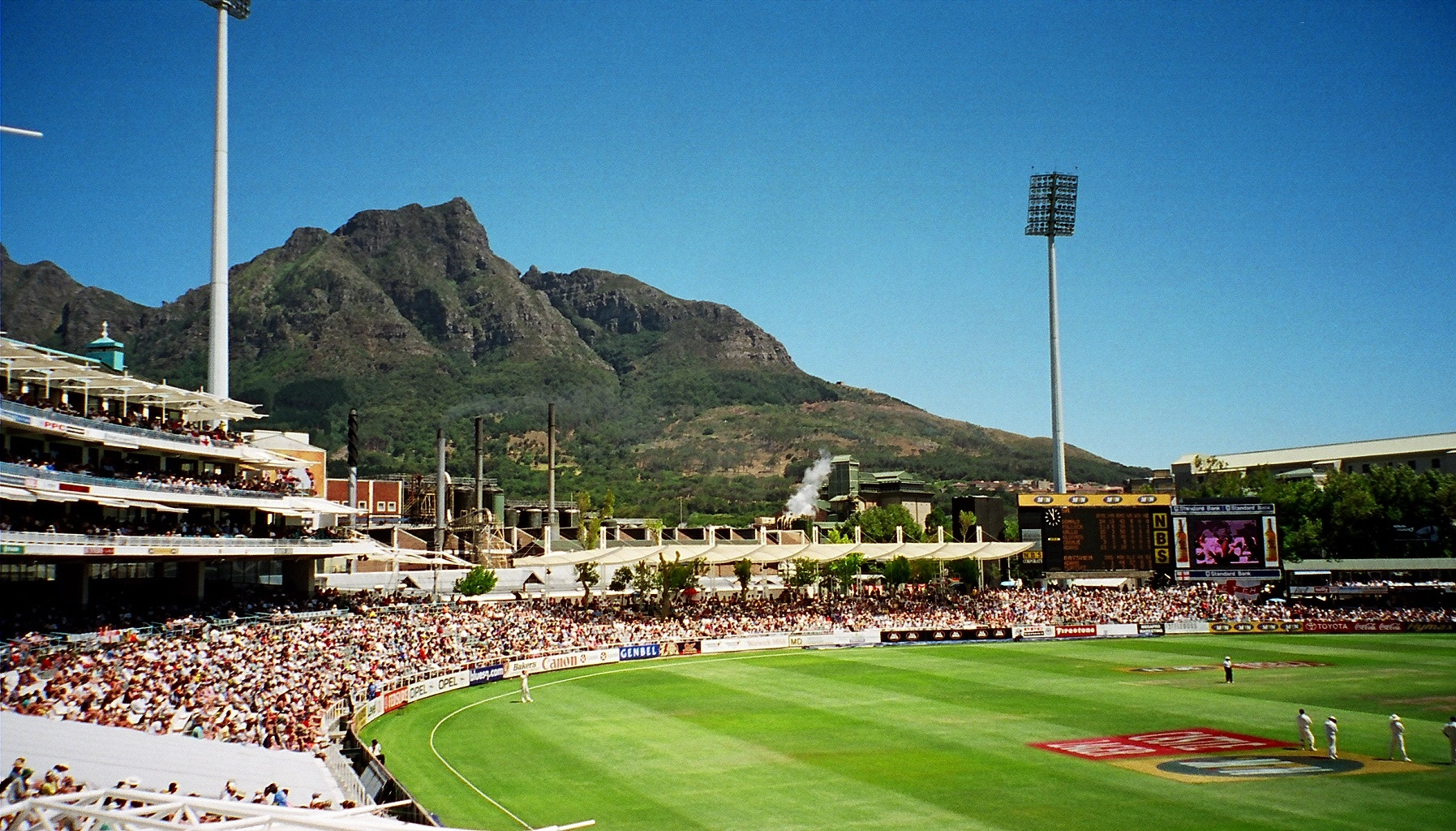 Newlands Cricket Ground. Photo by Paddy Briggs